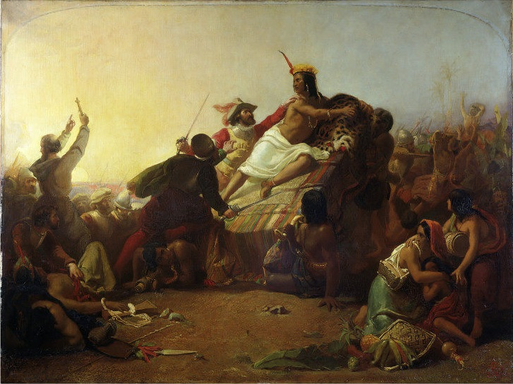 Painting "Pizarro Seizing the Inca of Peru", by John Everett Millais, showing Pizarro in the act of capturing the king of the Inca Atahualpa.